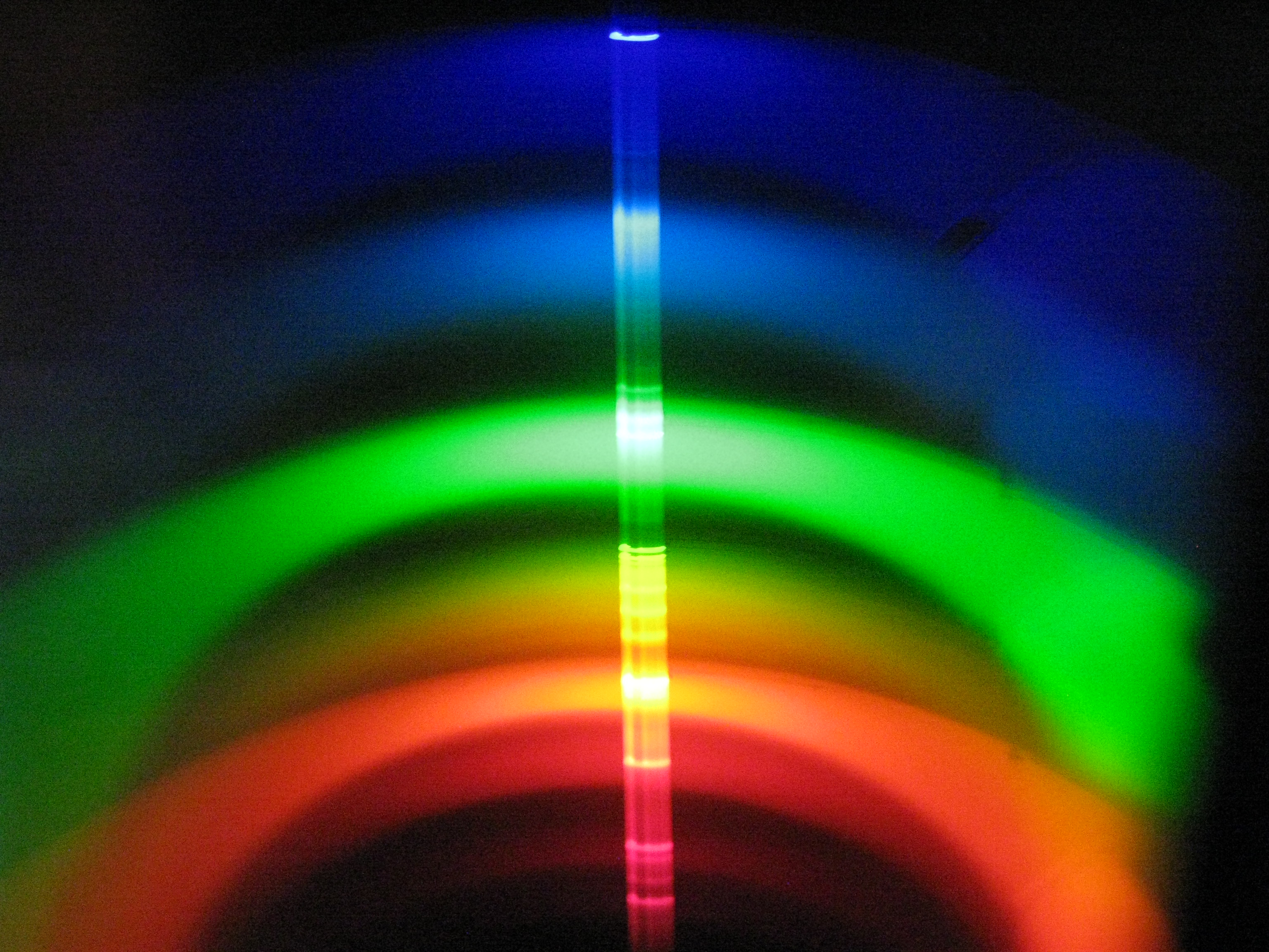 A helical fluorescent lamp, photographed on a reflection diffraction-grating. The grating separates the light into its different spectral lines, which reflect at different angles.